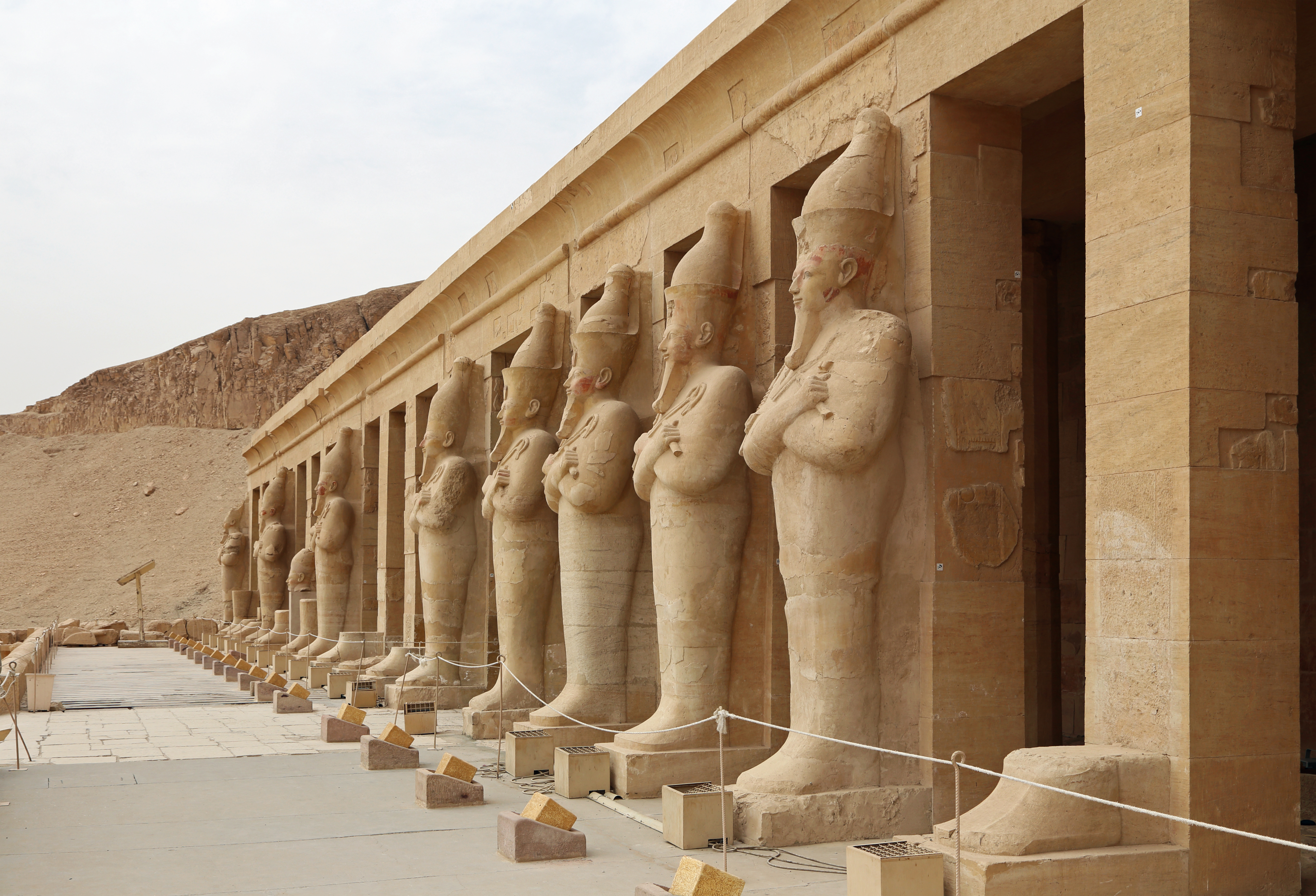 Luxor (Egypt): temple of Hatshepsut